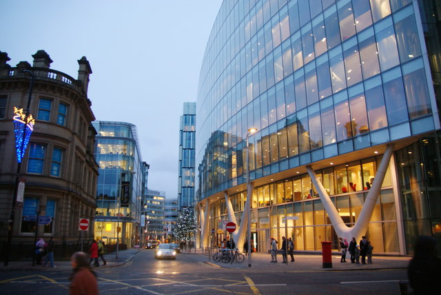 Spinningfields This is a large area of new development. Royal Bank of Scotland occupy the building on the right.